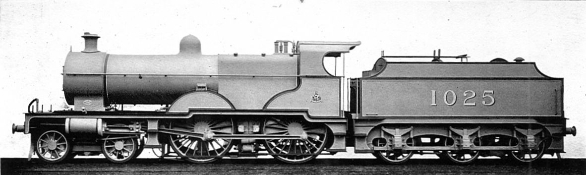 A Midland Compound